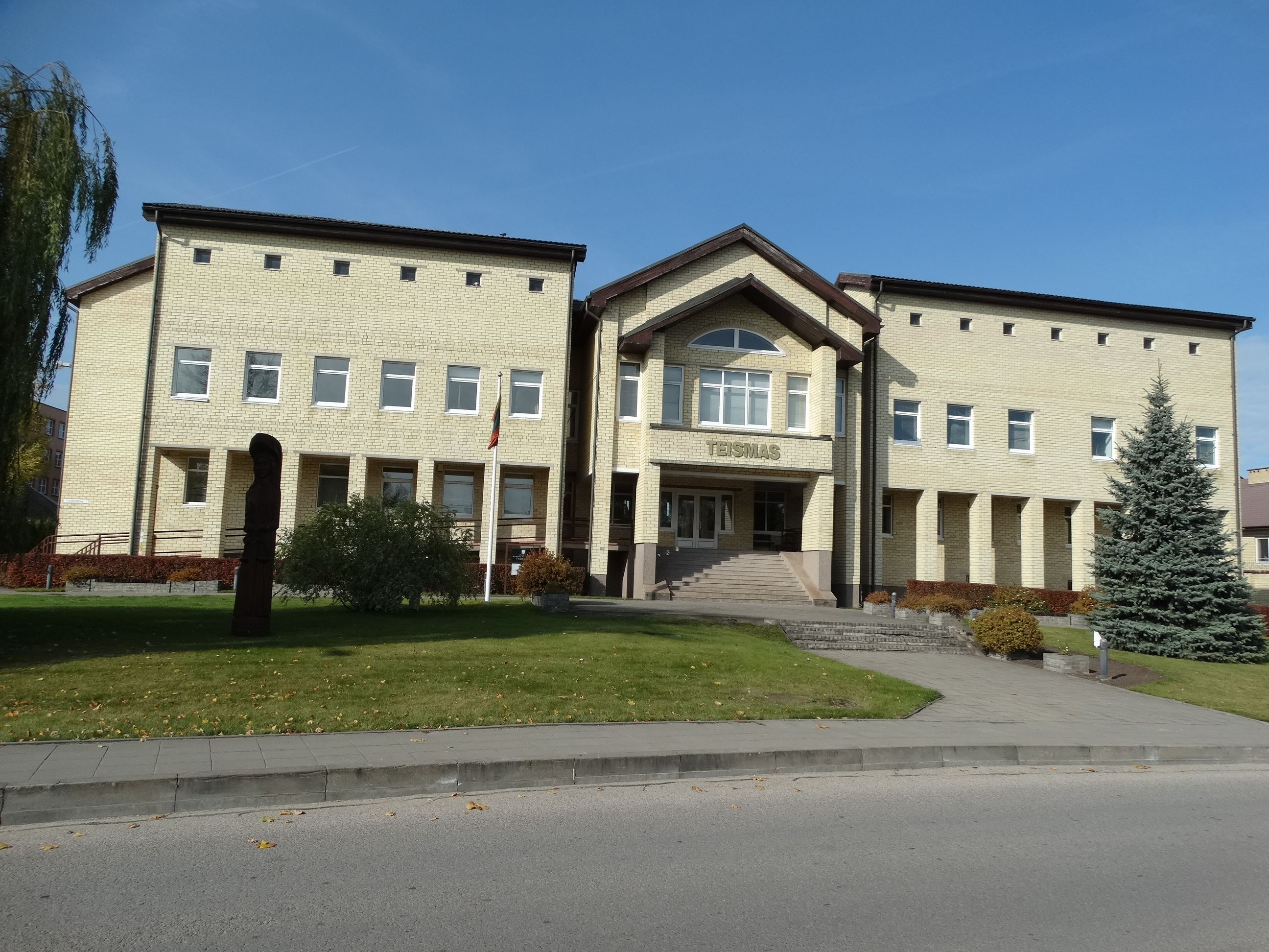 Court, Lazdijai, Lithuania